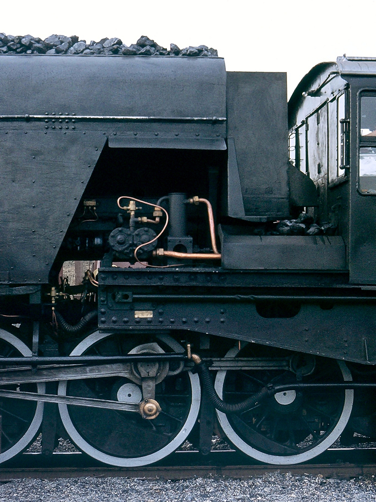 The stoker steam engine of a Garratt steam locomotive class GMAM of the South African Railways SAR. It is mounted at the recess of the rear tender. The number of the shown locomotive is 4122.